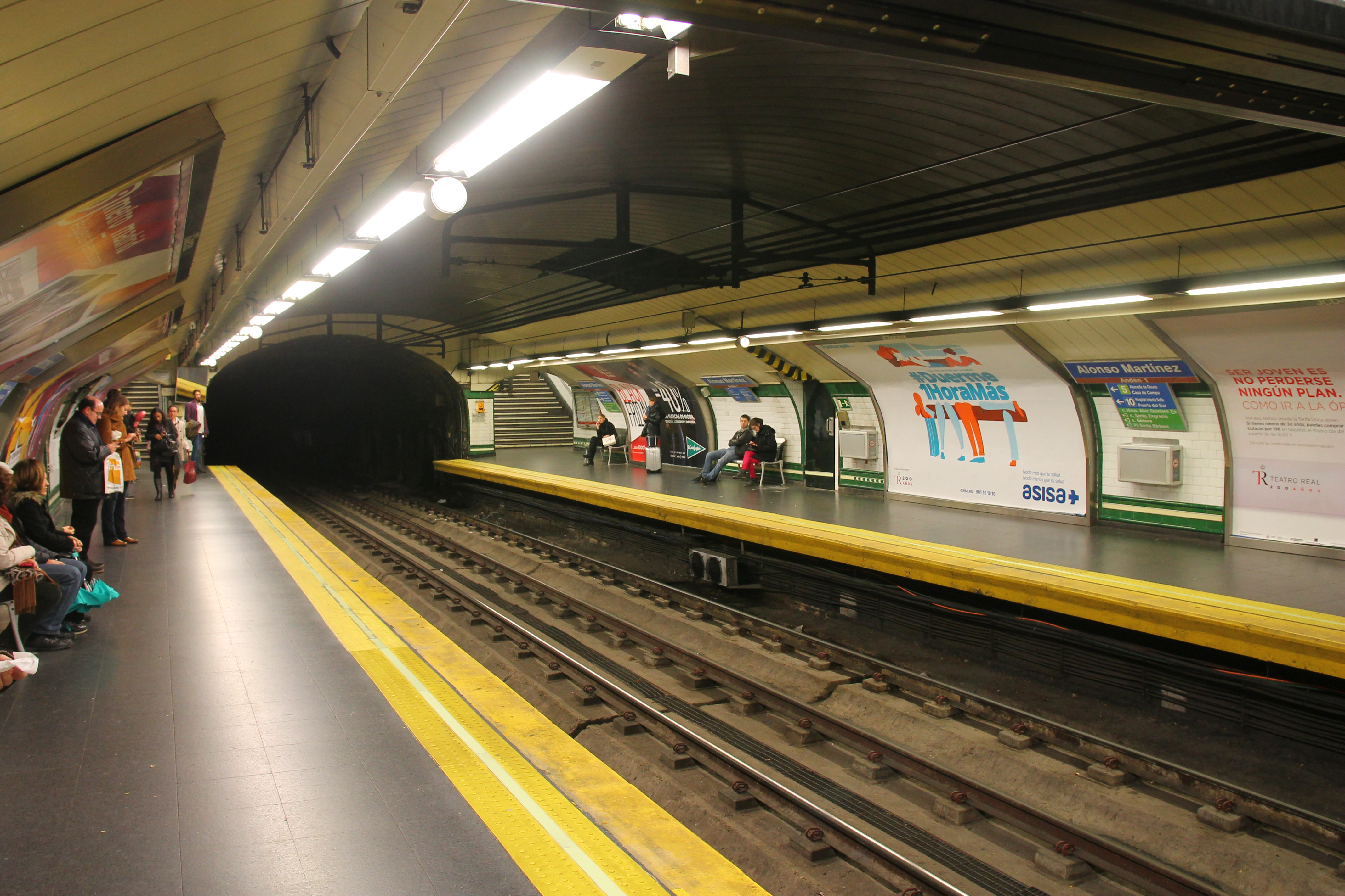 Estación de Alonso Martínez